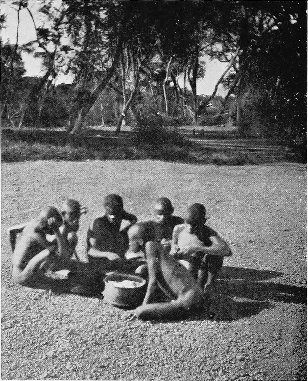 Title: The Uganda protectorate; an attempt to give some description of the physical geography, botany, zoology, anthropology, languages and history of the territories under British protection in East Central Africa, between the Congo Free State and the Rift Valley and between the first degree of south latitude and the fifth degree of north latitude Year: 1902 (1900s) Authors: Johnston, Harry Hamilton, Sir, 1858-1927 Subjects: African languages; Natural history; Ethnology Publisher: London, Hutchinson & Co. Text Appearing Before Image: 5M PYGMIES AND FOREST NEGEOES and â as if the original motif had been forgotten and the gestures and writhings were merely traditional. Actually I never noticed any liking for deliberate indecency on the part of these Pygmies, who should certainly be Text Appearing After Image: 299, PYGMIES EATING described as strictly observing the ordinary decencies of life, perhaps rather punctiliously. Amongst themselves they are said to be very moral. Their women, however, soon degenerate into immorality when they come into contact with Sudanese or Swahilis. But even then they observe outward decorum and assume an affectation of prudishness. I have referred already to the agricultural forest negroes who dwell alongside the Dwarfs. Native traditions, as recorded by Schweinfurth and Junker and other early explorers of the Bahr-al-Ghazal region of the Congo watershed, would seem to show that the Congo Dwarfs were far more